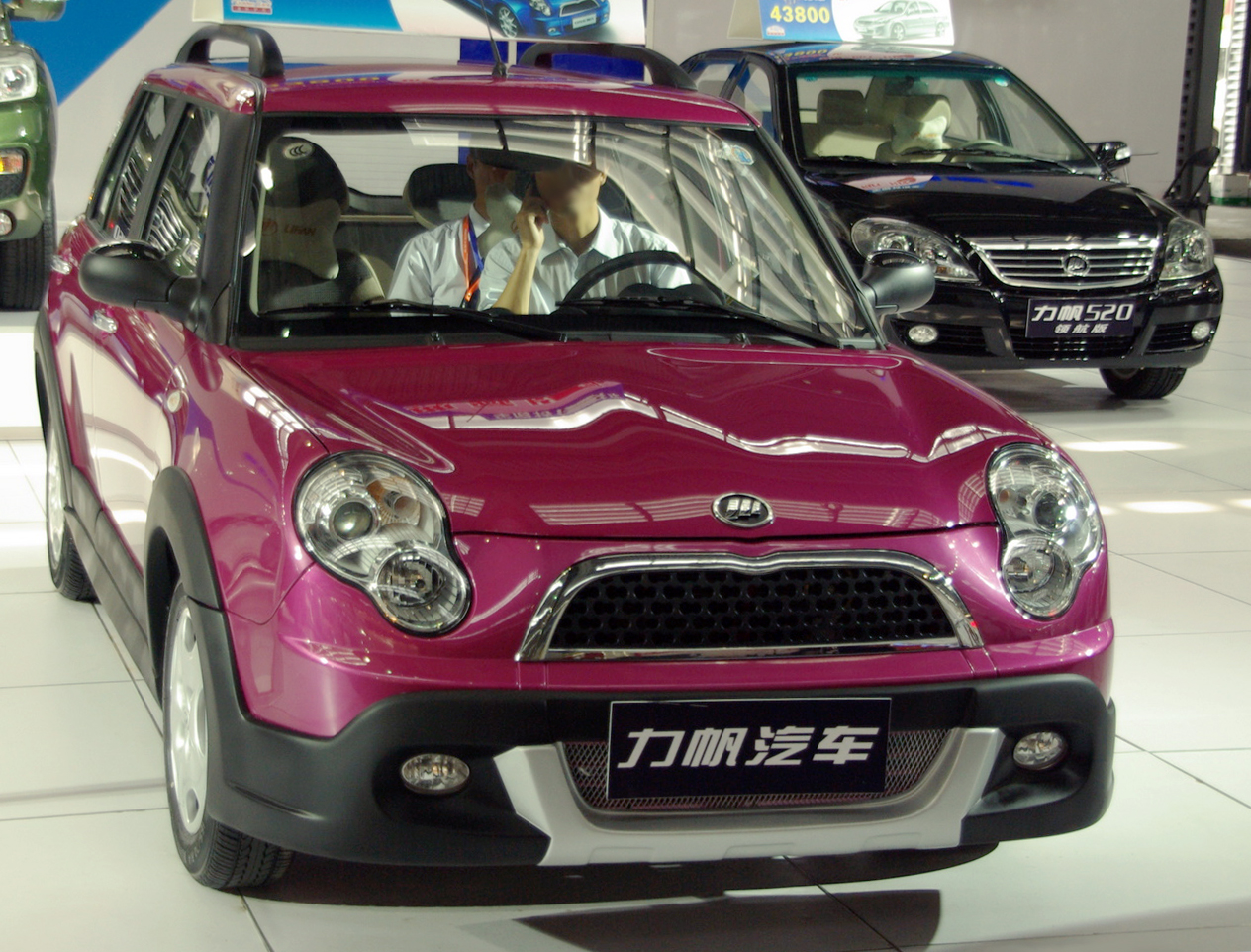 Facelifted (sportier looking) Lifan 320 at the 2011 Shenzhen-Hong Kong-Macau International Auto Show.